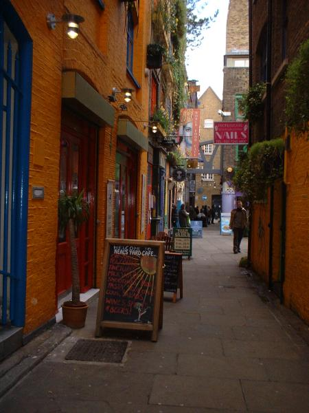 Neals Yard, Covent Garden, London. Taken 7th March 04 by C Ford.